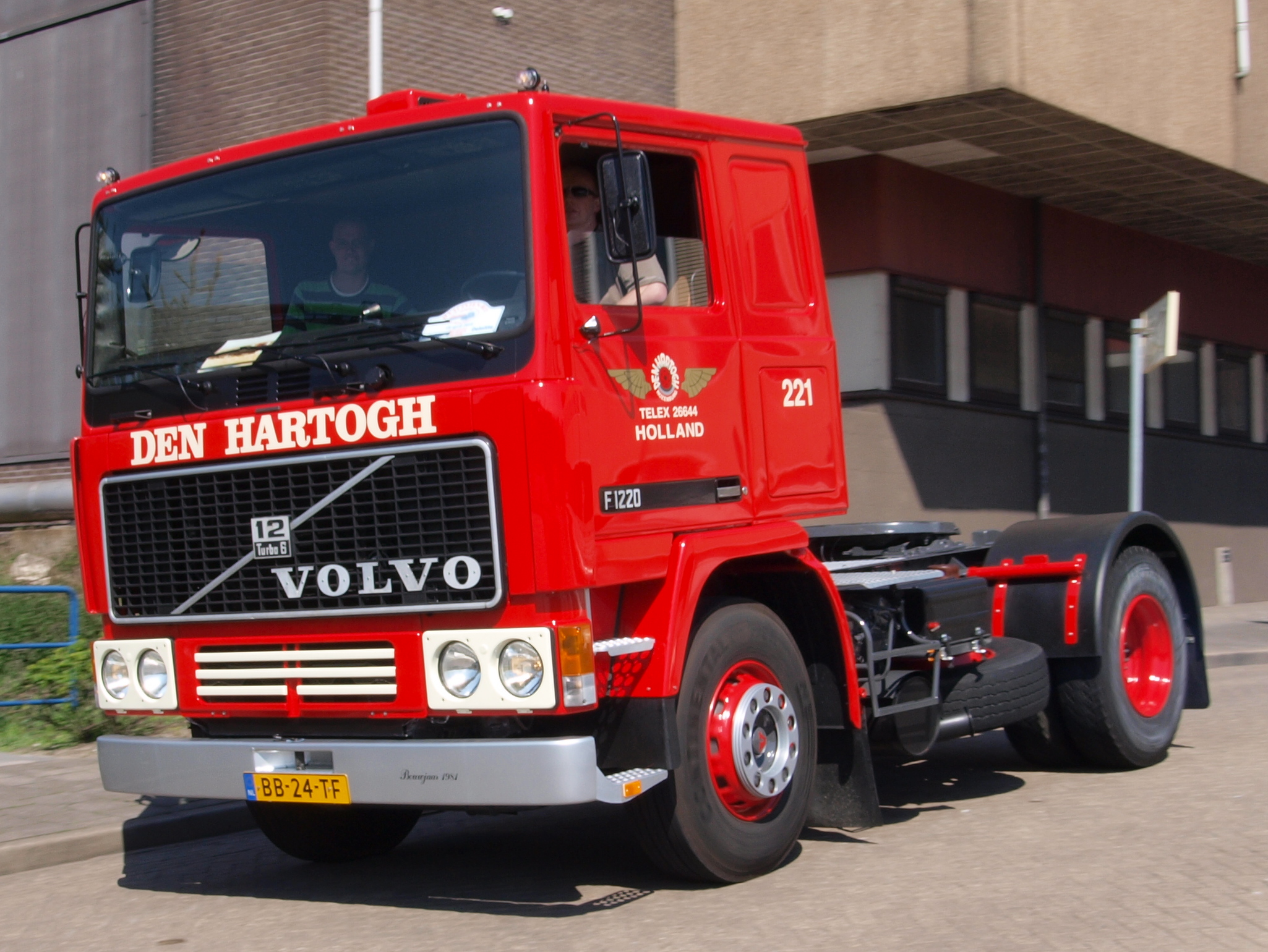 Photographed at the Hyacintenrit 2010, The Netherlands.